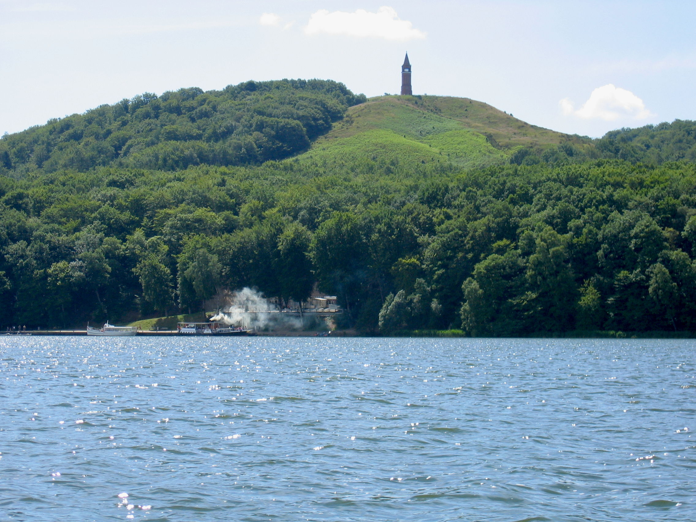 Himmelbjerget with the steam ship Hjejlen in the foreground,Denmark.